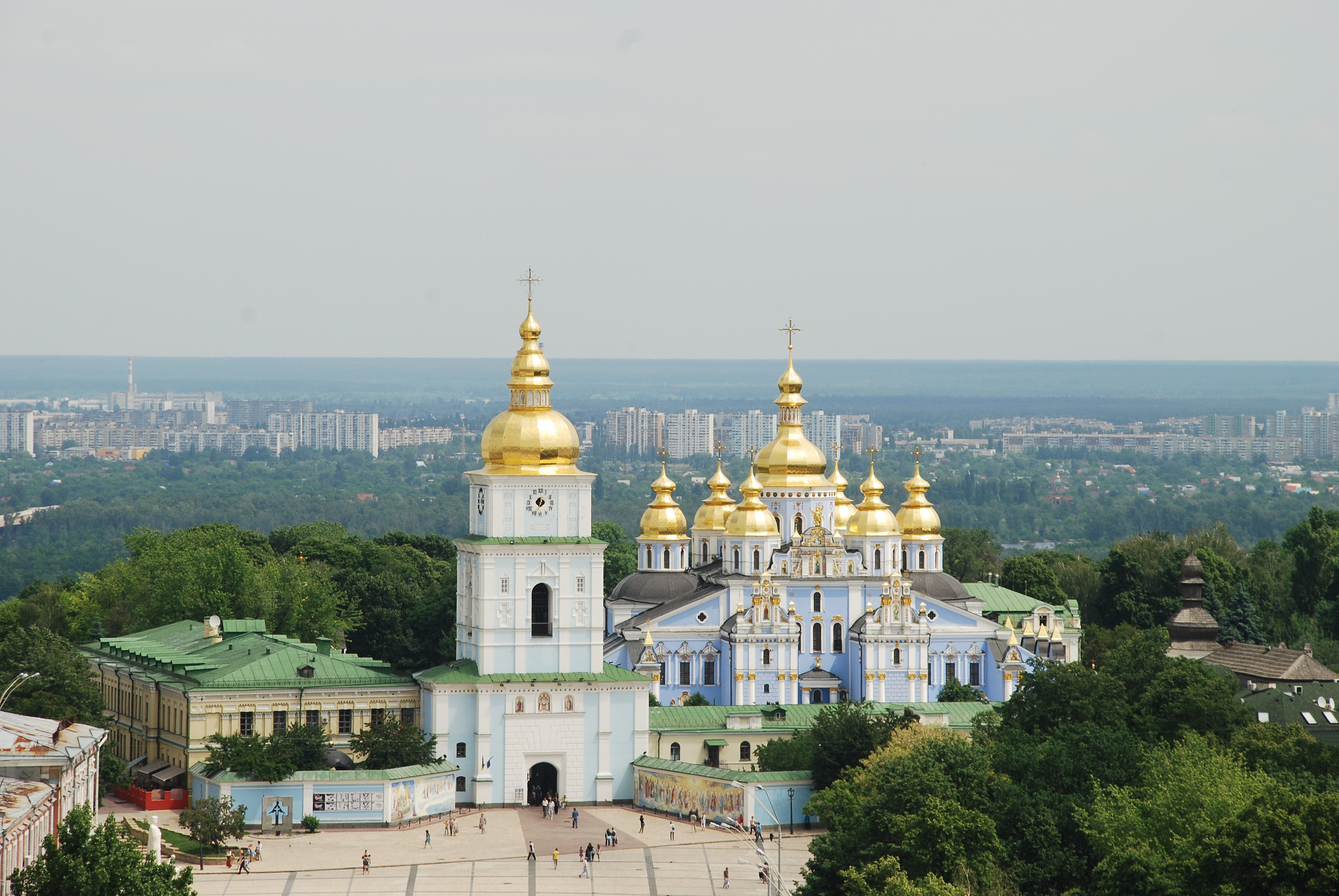 St. Michael's Golden-Domed Cathedral in Kiev